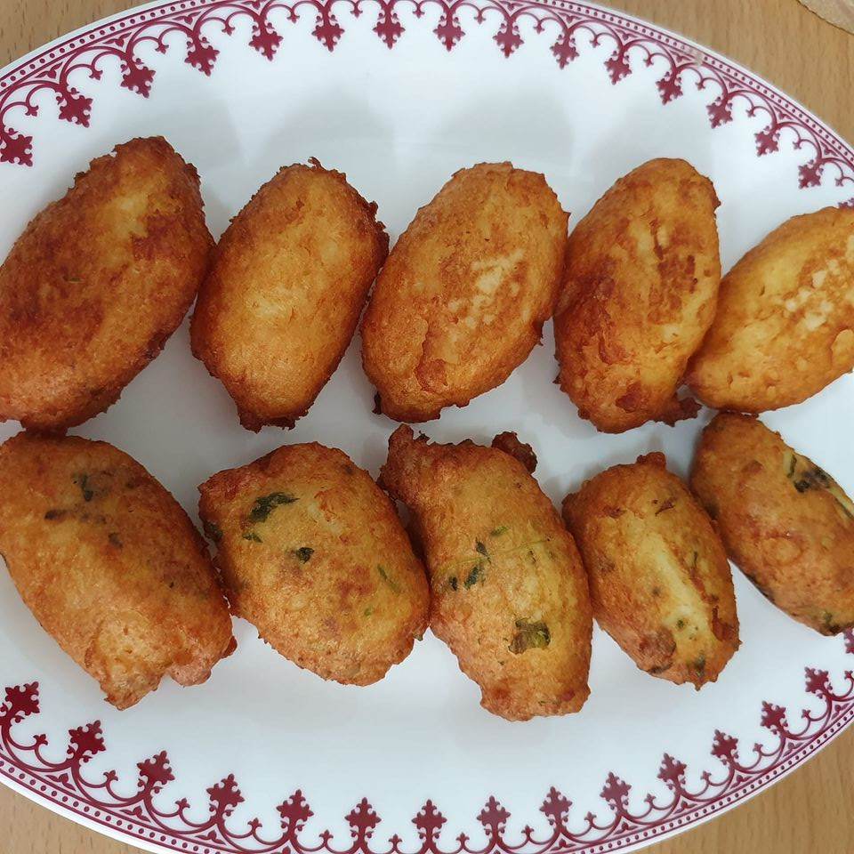 Quenelle shaped Pommes Dauphine: plain (upper row), and with herbs added (lower row)